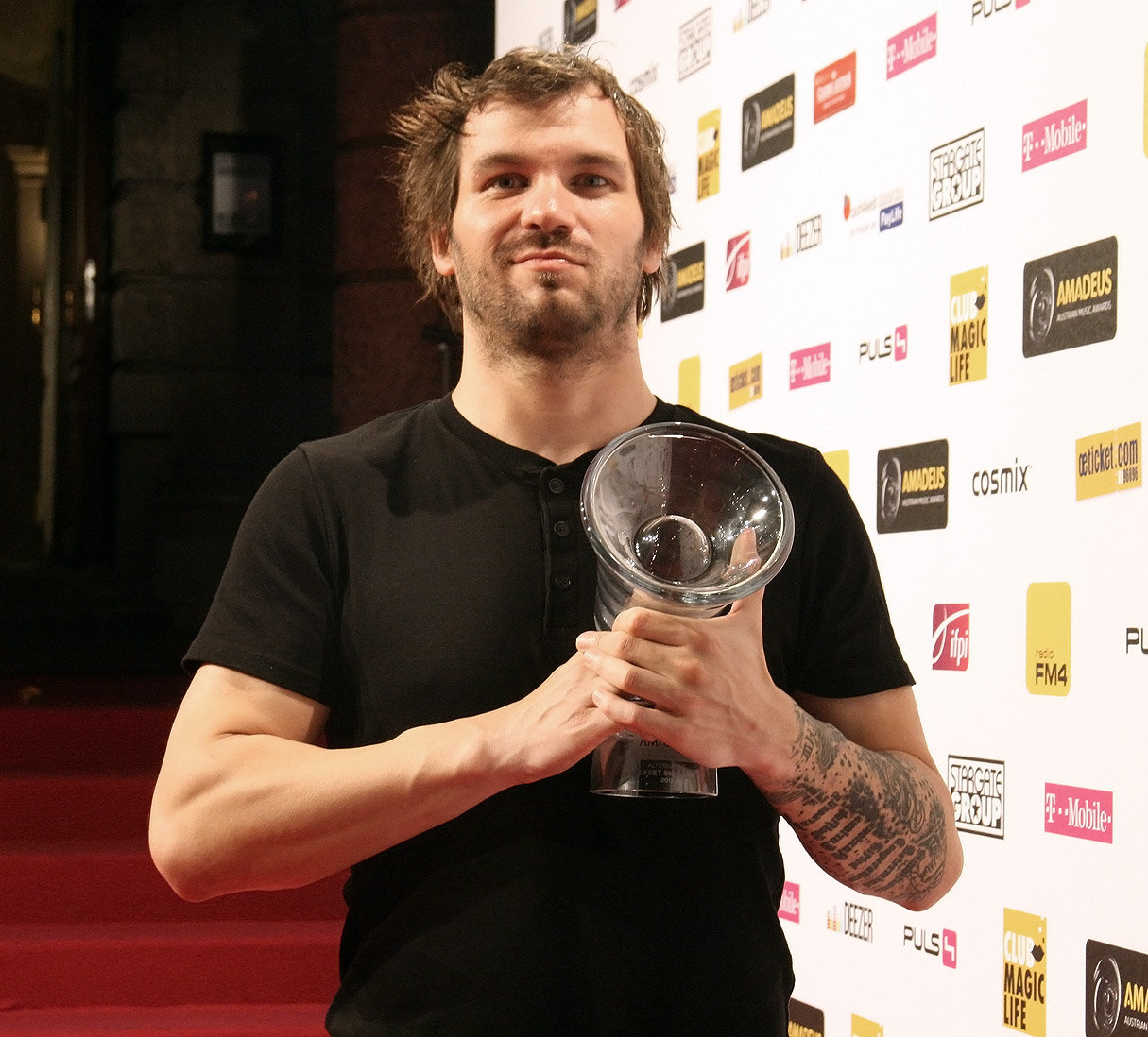 3 Feet Smaller, Amadeus Austrian Music Award 2012 at the Volkstheater in Vienna, Austria.